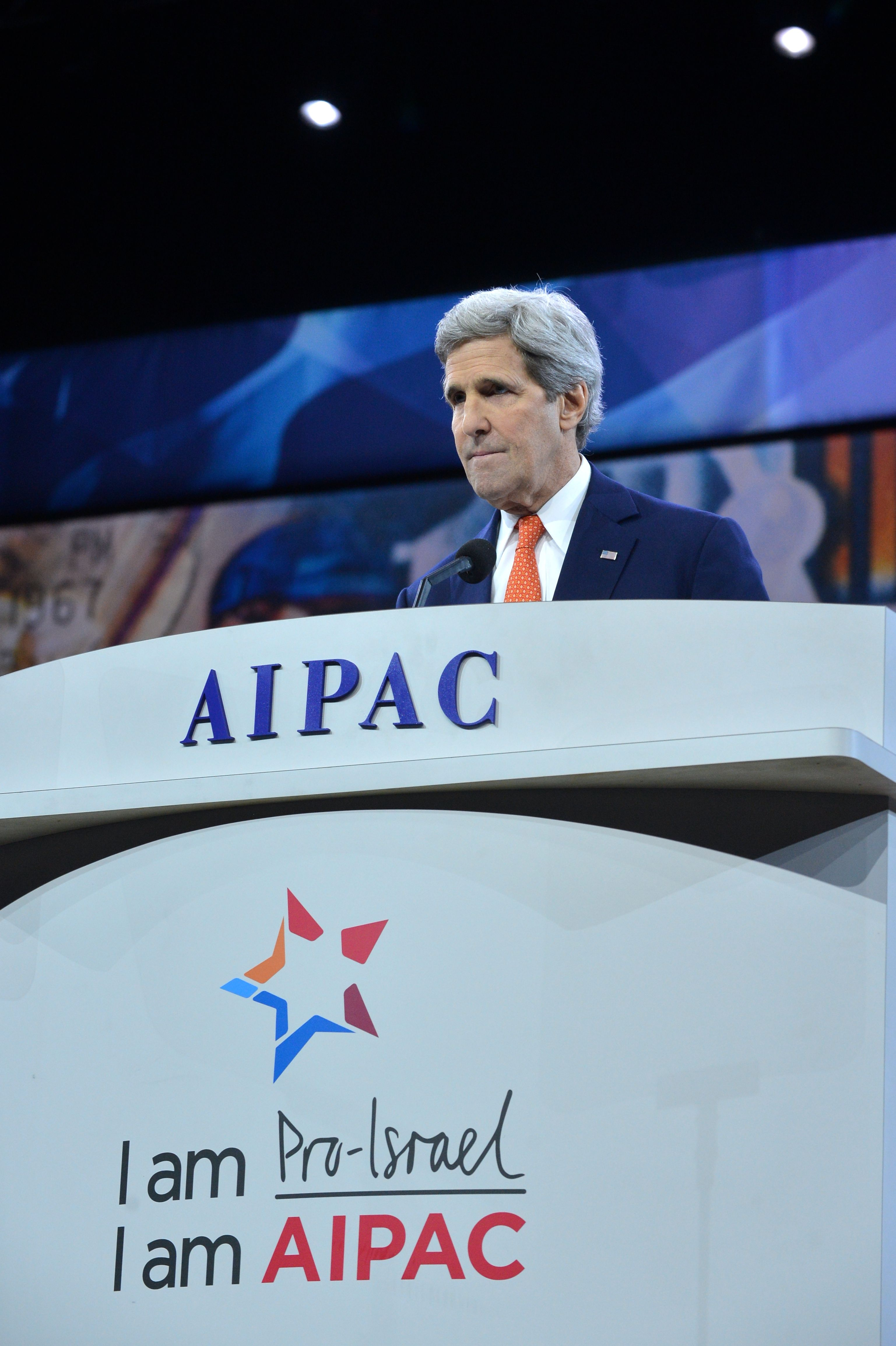 U.S. Secretary of State John Kerry delivers remarks at the American Israel Public Affairs Committee (AIPAC) Conference at the Washington Convention Center in Washington, D.C., on March 3, 2014. [State Department photo/ Public Domain]